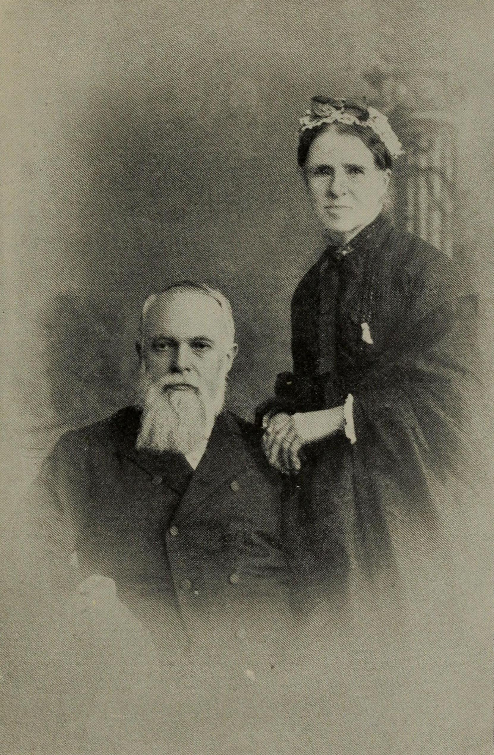 Luther Halsey Gulick Sr. (1828–1891) was a missionary to the Kingdom of Hawaii and part of a large missonary family.